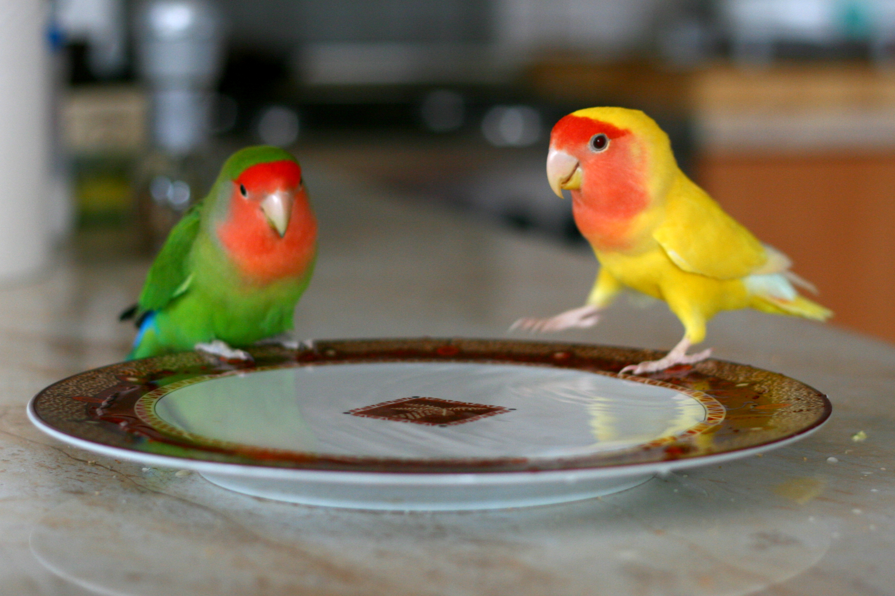 Peach-faced Lovebirds (Agapornis roseicollis). The One on the left is a wild-type and the one on the right is a Lutino Peach-faced Lovebird (a colour mutant).IMG_7838.JPG